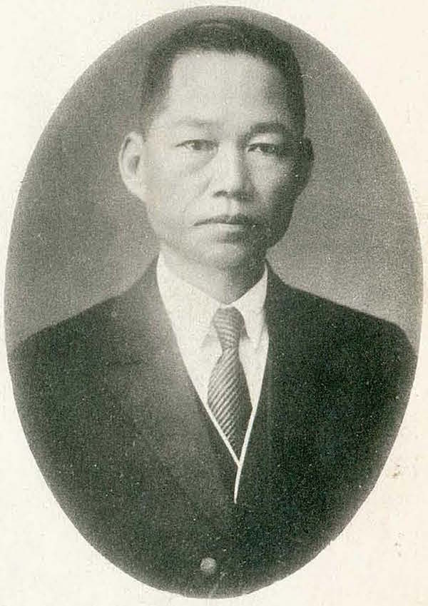 黃媽典 (N̂g Má-tián)